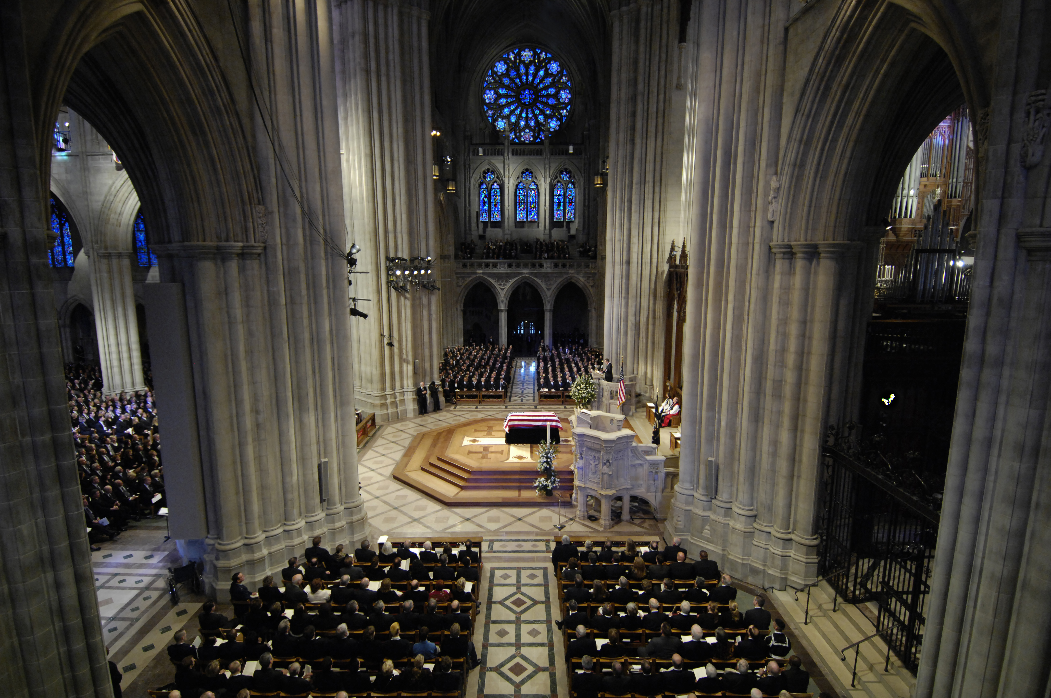 Washington, D.C. (Jan. 2, 2007) - The casket of former President Gerald R. Ford lay in repose at the Washington National Cathedral in Washington, D.C., Jan. 2. Ford, the 38th president of the United States, passed away on Dec. 26, at his home in California. Following the funeral service at the cathedral, Ford's remains will be flown to the Gerald R. Ford Museum in Grand Rapids, Mich., for burial. DoD photo by Senior Airman Daniel R. DeCook (RELEASED)